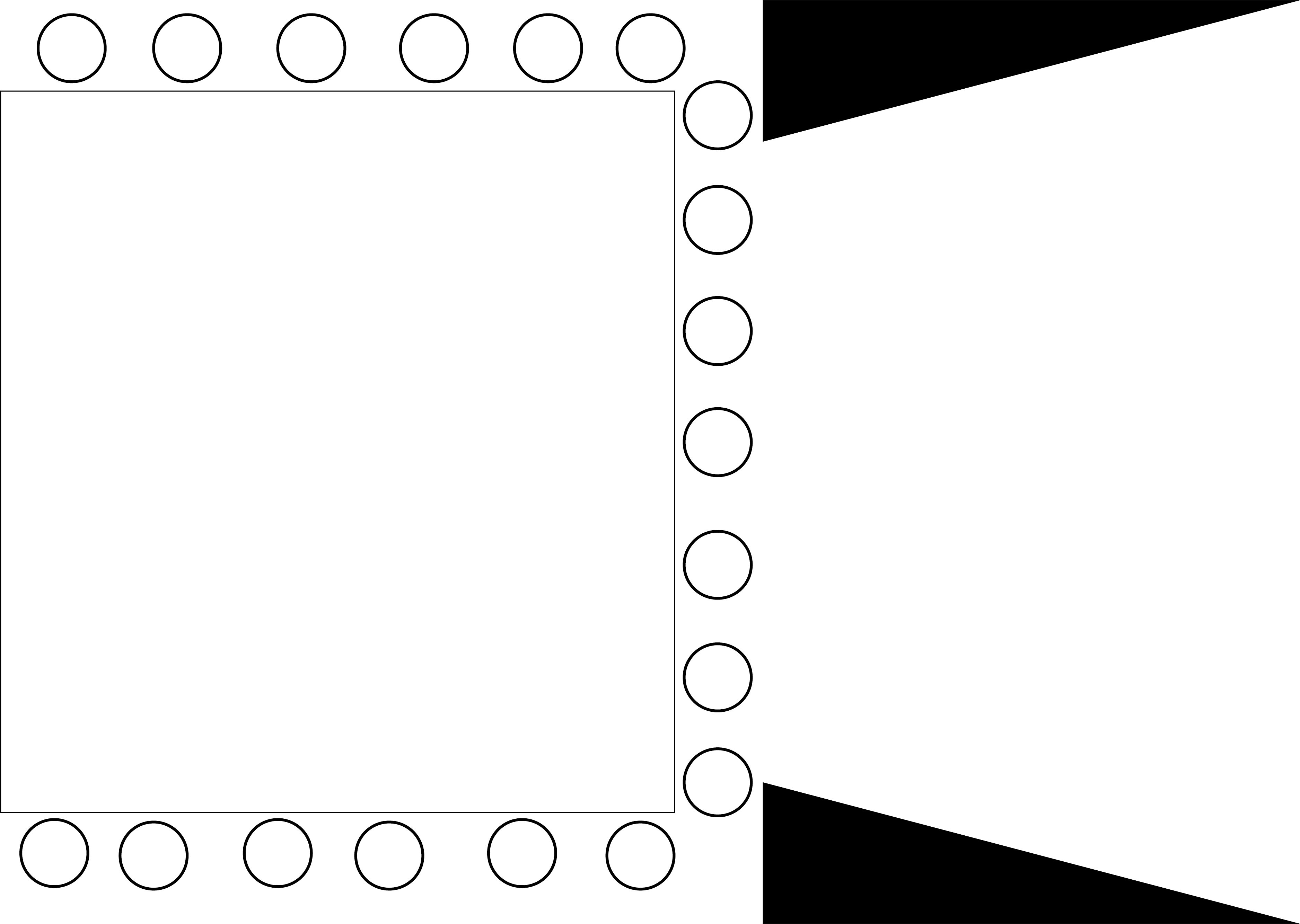 Based on David Nicolle "Armies of the Muslim Conquest" illustrations by Angus McBride. And Martin Hinds "The Banners and Battle Cries of the Arabs at Siffin" Al-Abhath XXIV